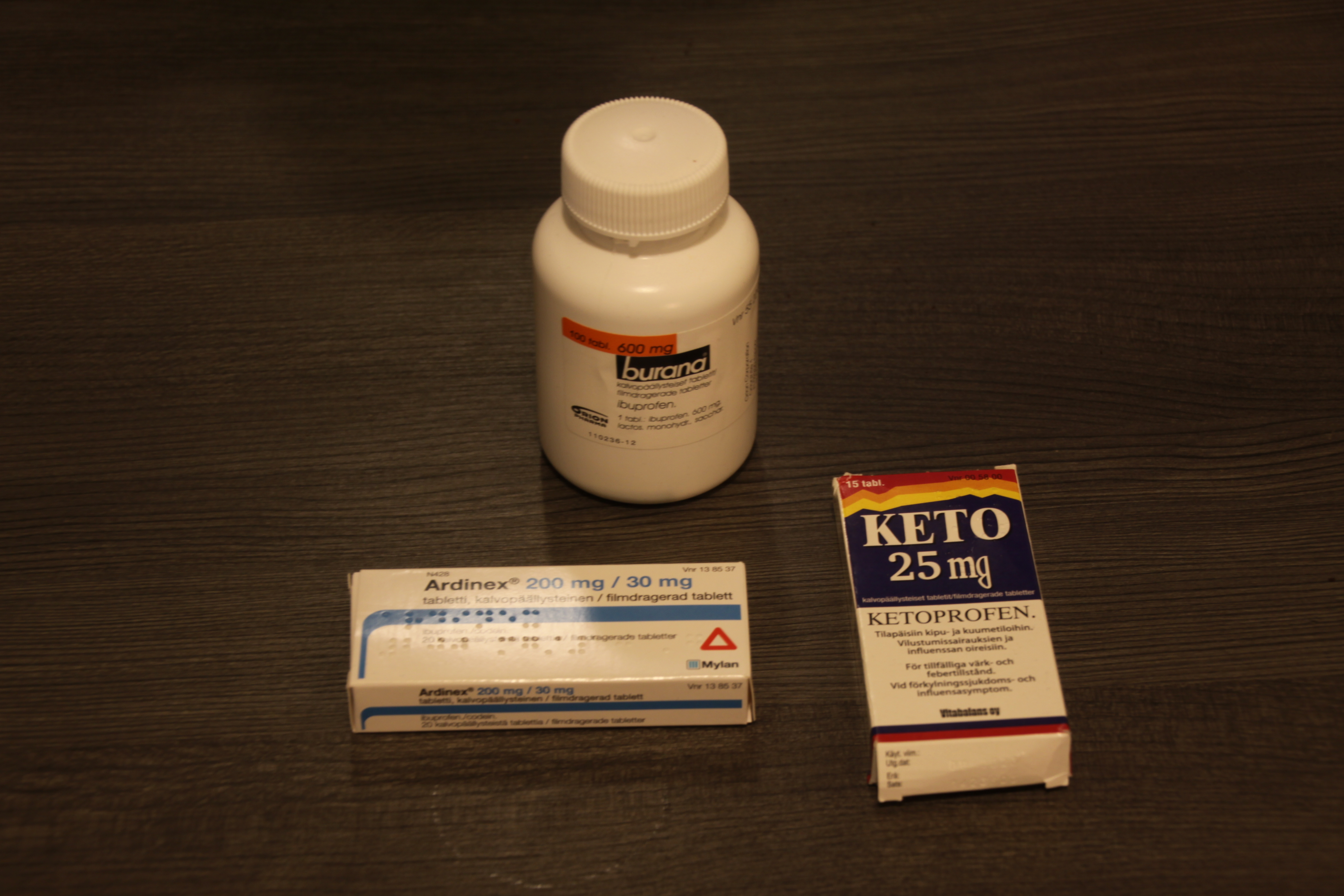 Non-steroidal anti-inflammatory drugs.